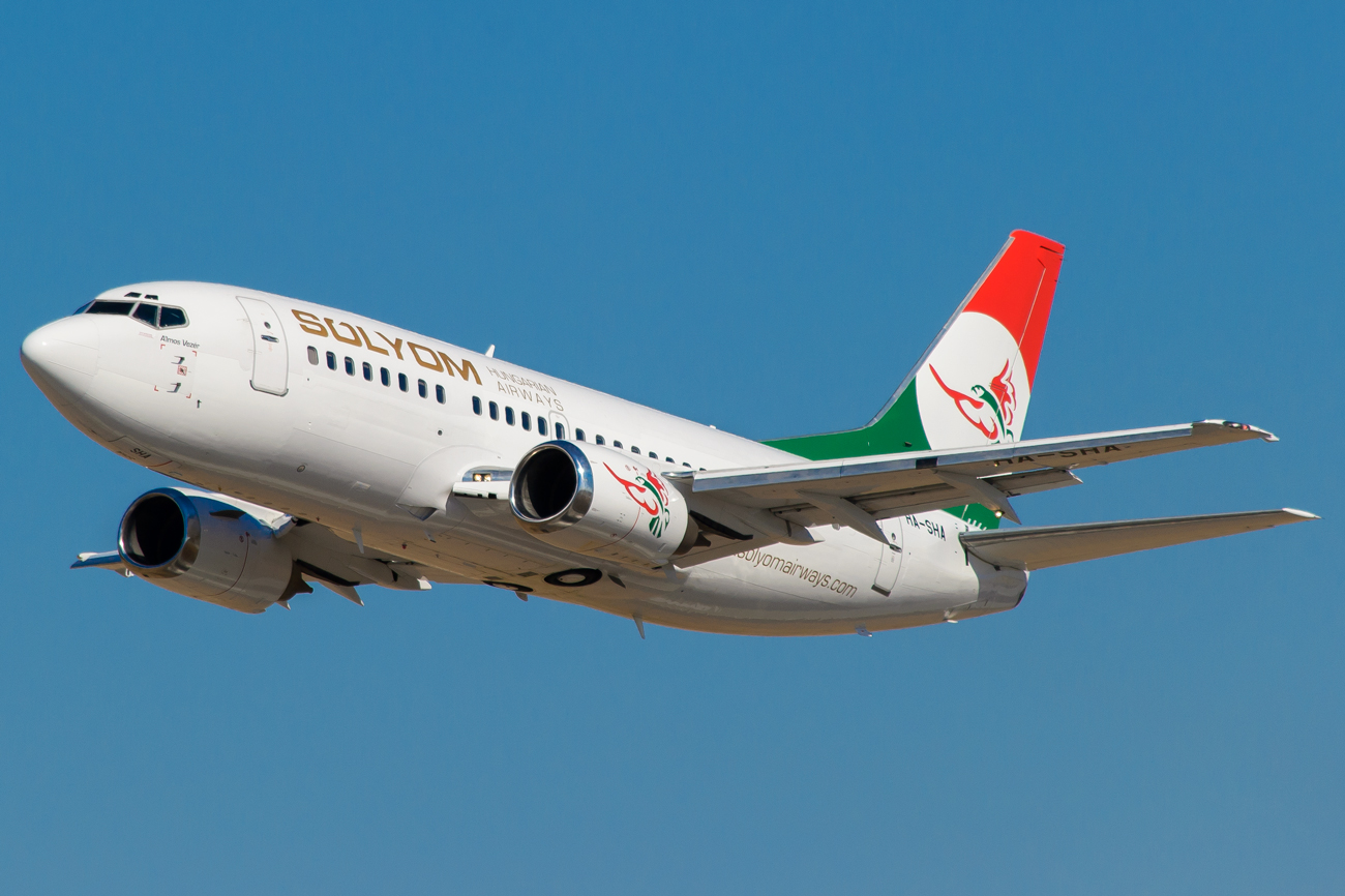 Sólyom Hungarian Airways B737